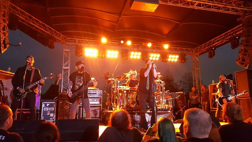 American rock band Messer performing in 2017